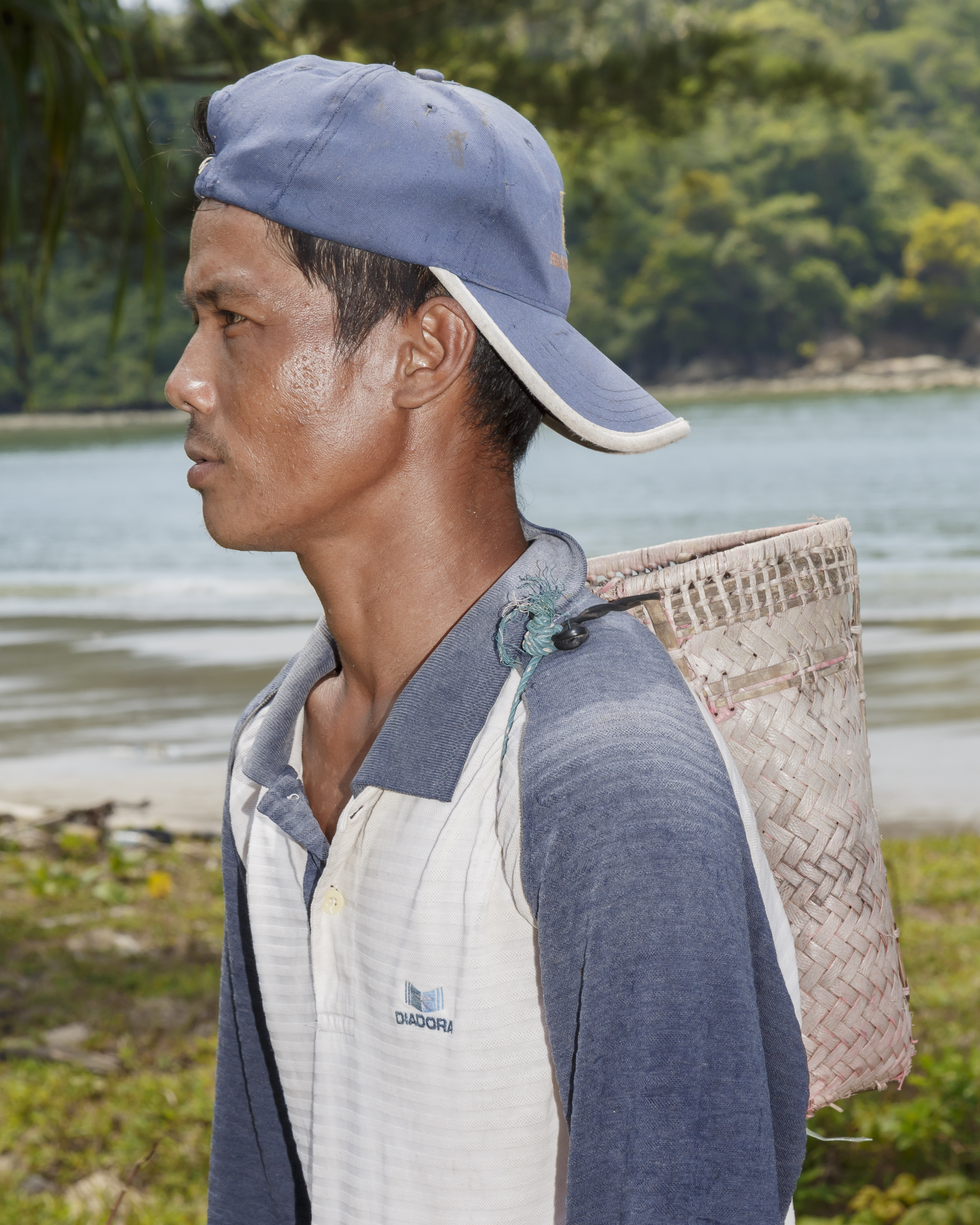 Kg. Loro Kecil, Kudat, Sabah: A Rungus fisherman